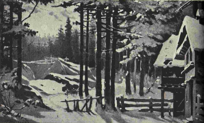 Water-colour sketch by Adolf Hohenstein (1854-1928) for Giacomo Puccini's Le Villi (1884)